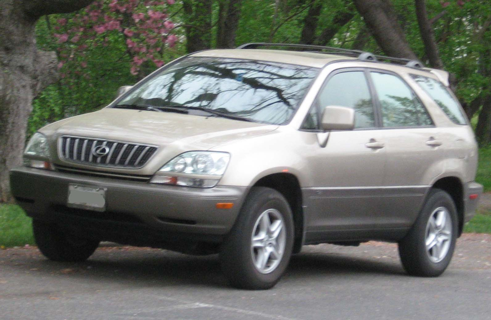 Lexus RX300 photographed in USA.